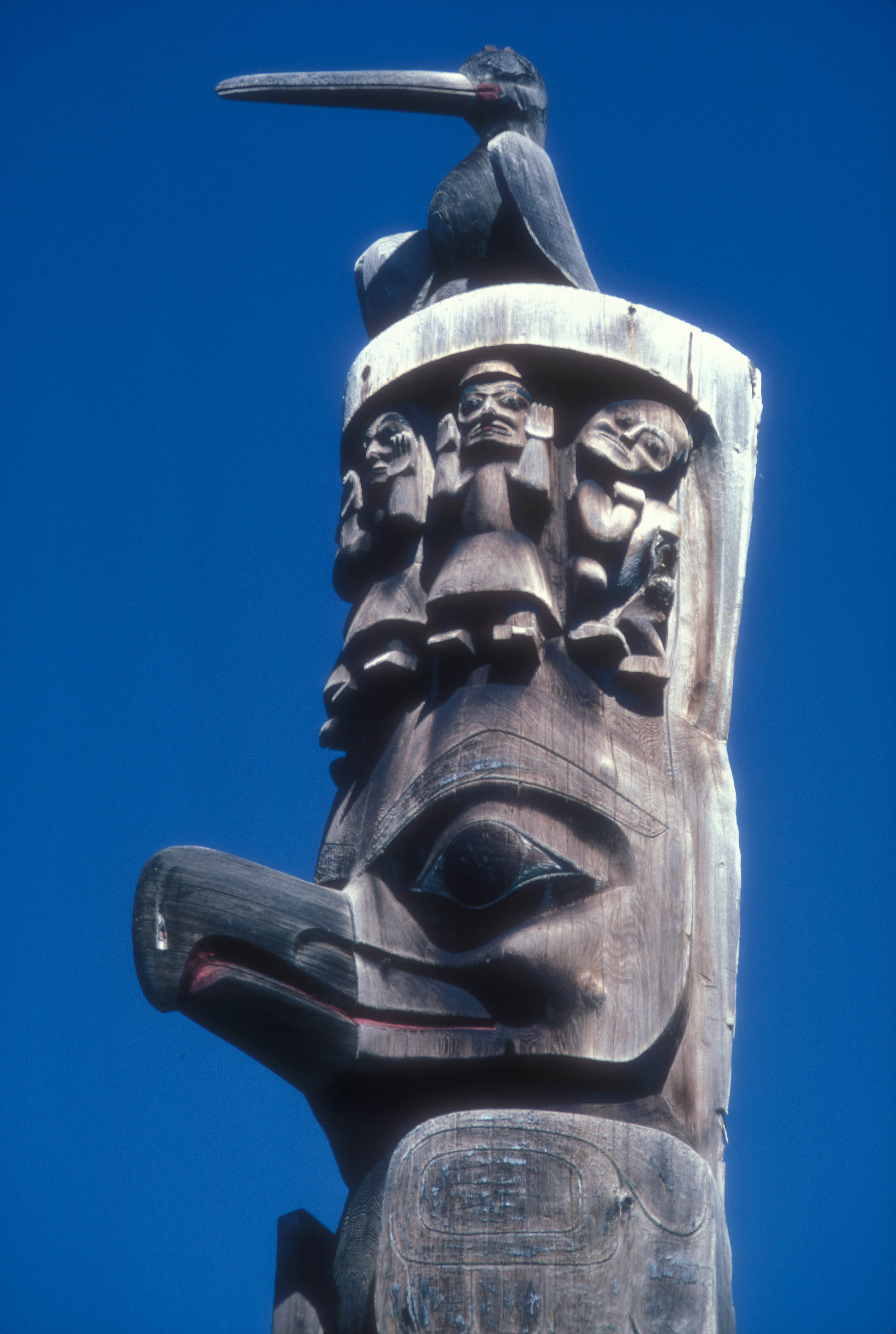 GITANYOW WAS FORMERLY KNOWN AS KITWANCOOL NATIONAL HISTORIC SITE. IT IS A NATIONAL HISTORIC SITE UNDER BOTH NAMES AND IT IS FAMOUS FOR ITS TOTEM POLES